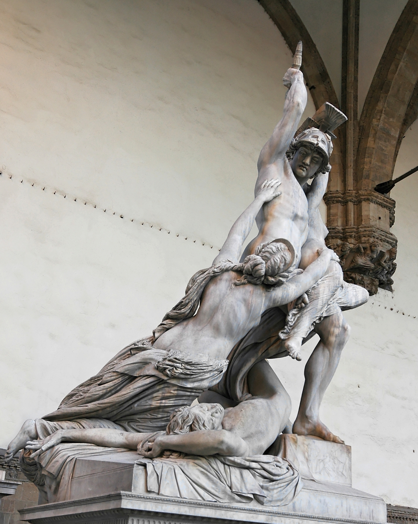 The Rape of Polyxena by Pyrrhos by Pio Fedi. Marble, 1860–1865. Installed under the Loggia dei Lanzi in 1865.